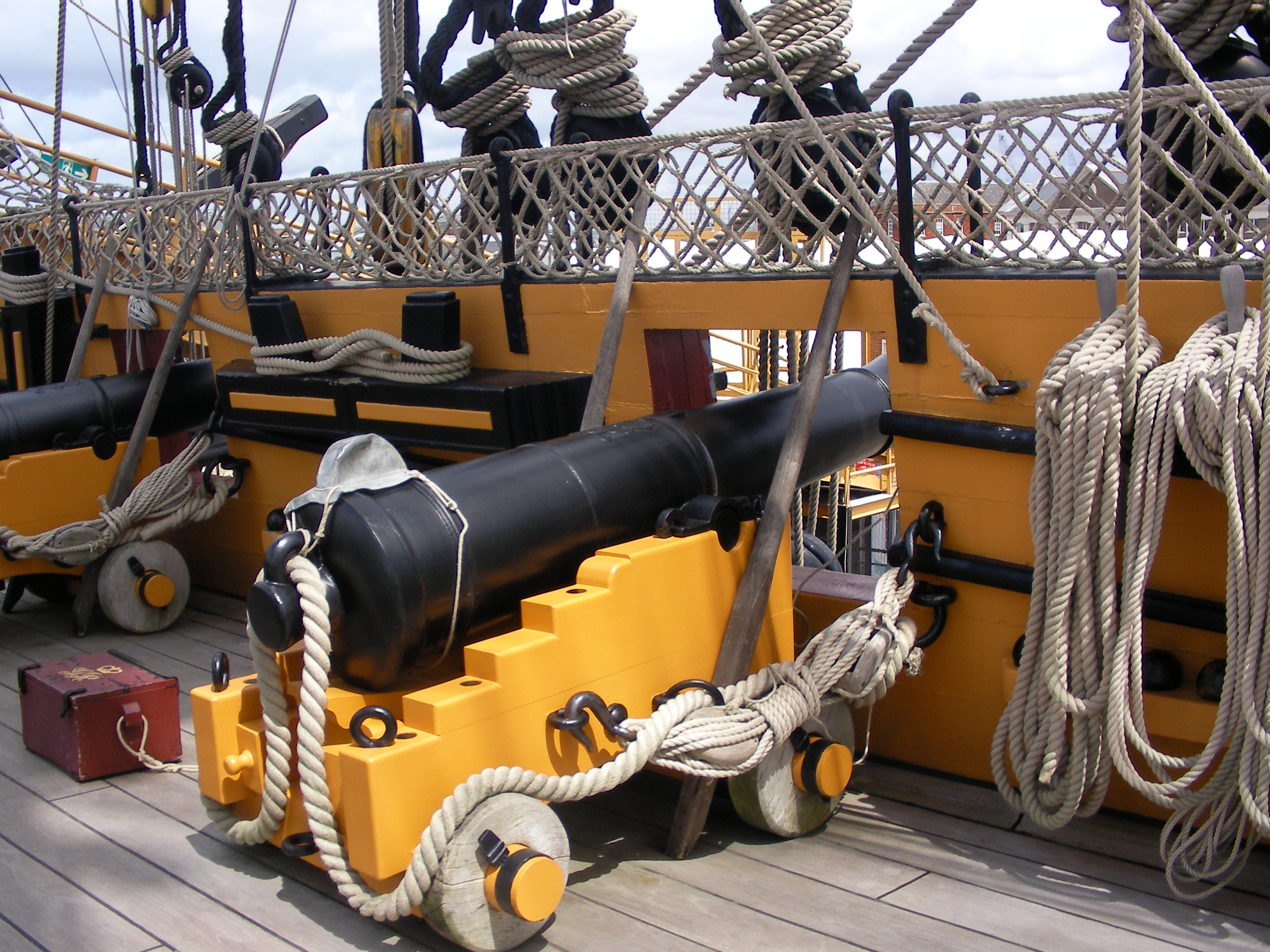 short 12 pounder in the HMS Victory's Quarterdeck